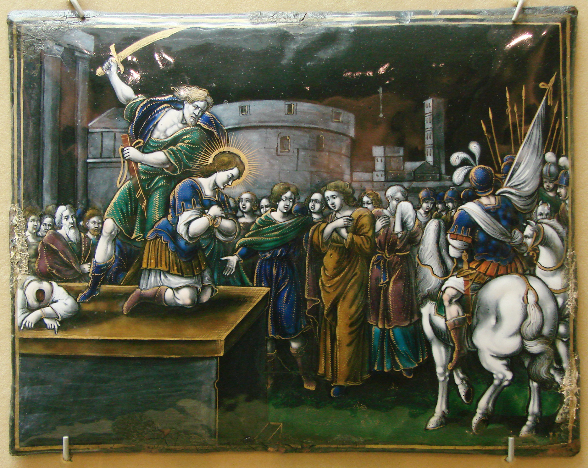 Limoges enamel: a martyrdom. Made by Jacques I Laudin (about 1663). Musée Saint Remi, Reims,France.